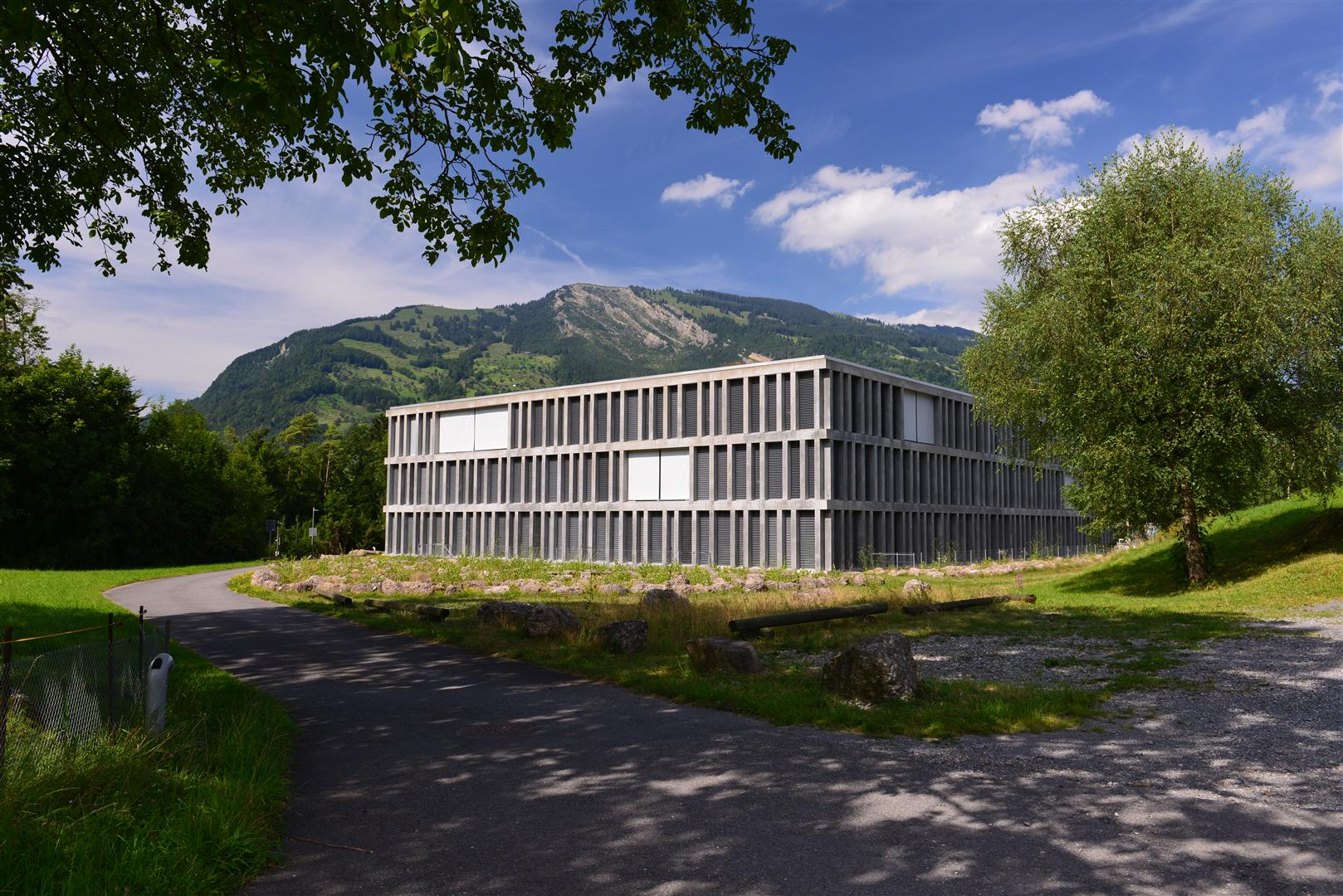 Building of the Schwyz University of Teacher Education in Goldau